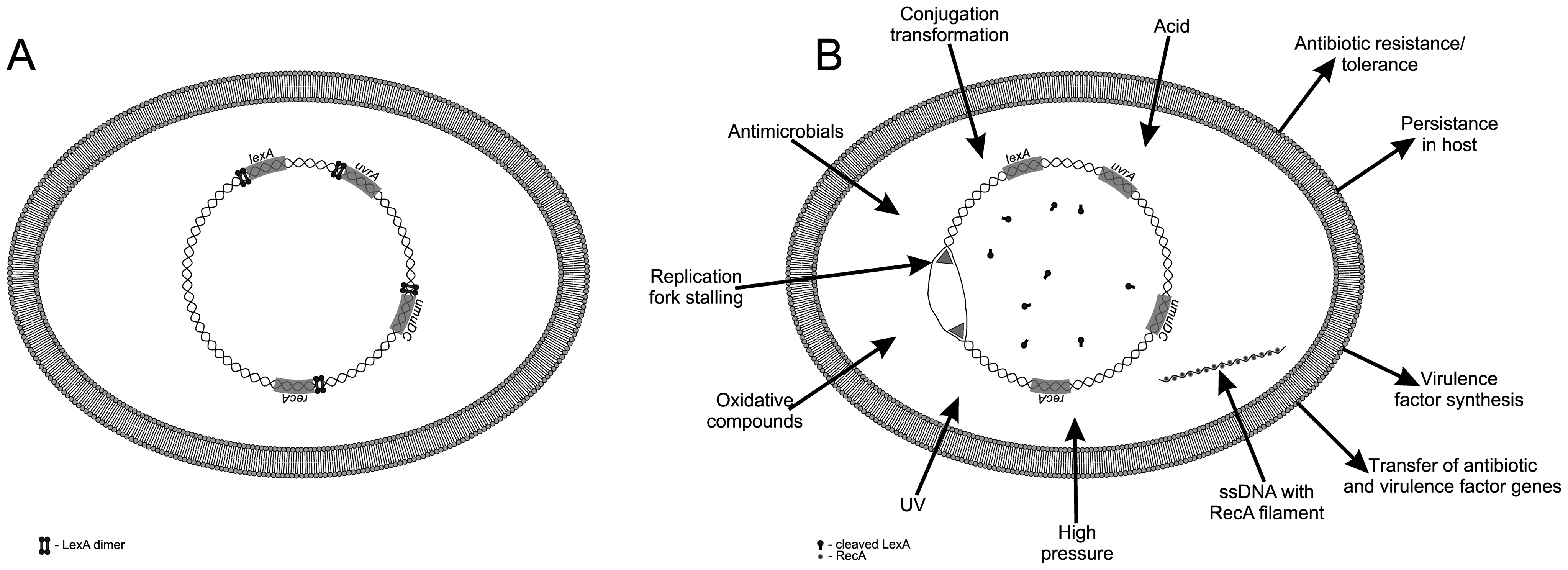 (A) During normal growth the LexA transcriptional repressor downregulates the SOS response genes. (B) Various endogenous and exogenous triggers induce the SOS response, resulting in drug resistance, tolerance, persistence in host, virulence-factor synthesis, and dissemination of both resistance and virulence factor genes.